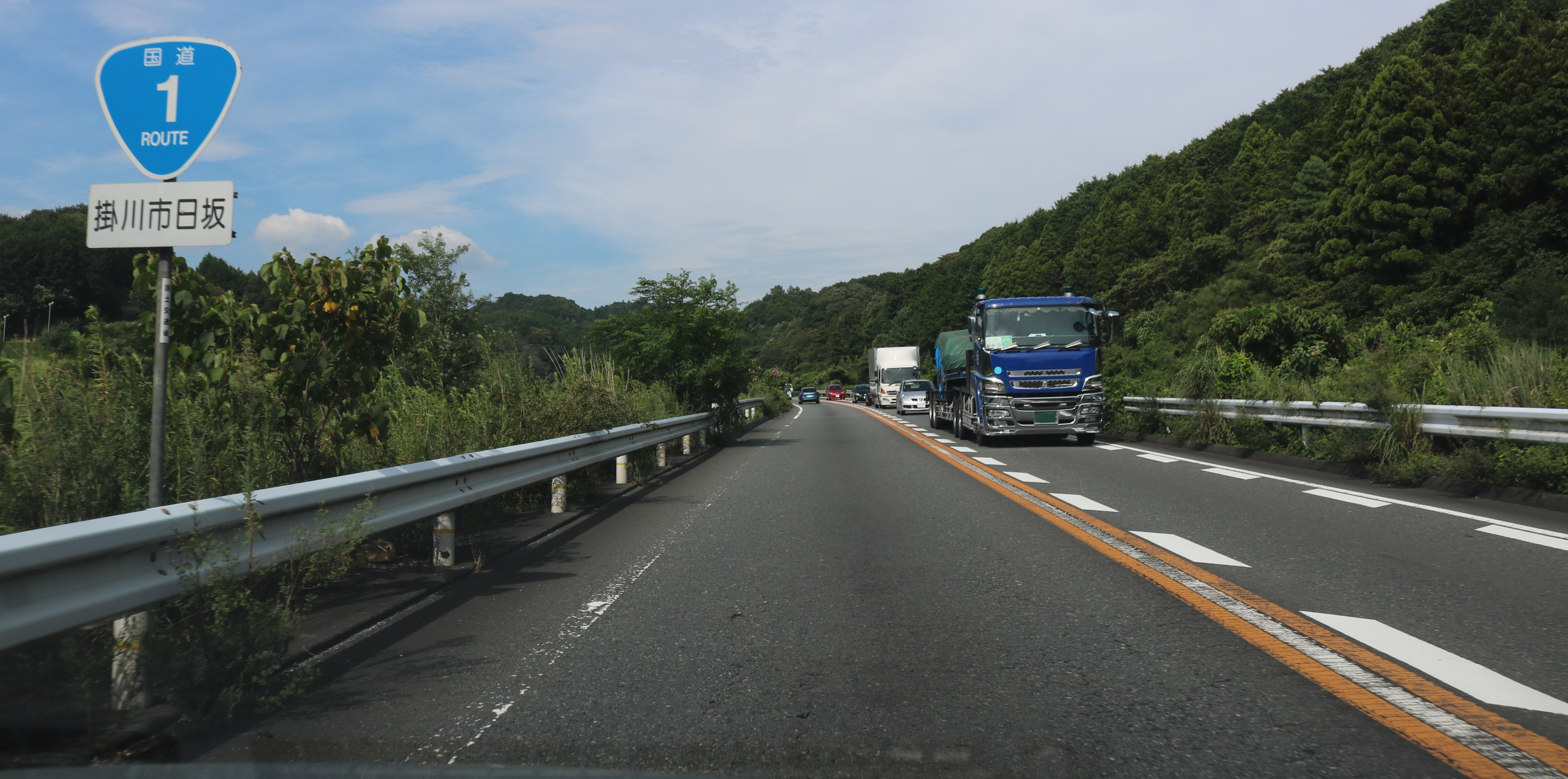 Hisaka Byapass of Route 1 in Hisaka Kakegawa, Shimada, Shizuoka Prefecture, Japan.